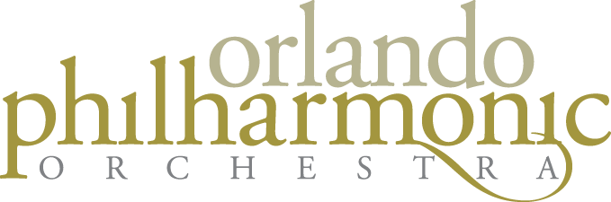 OPO logo